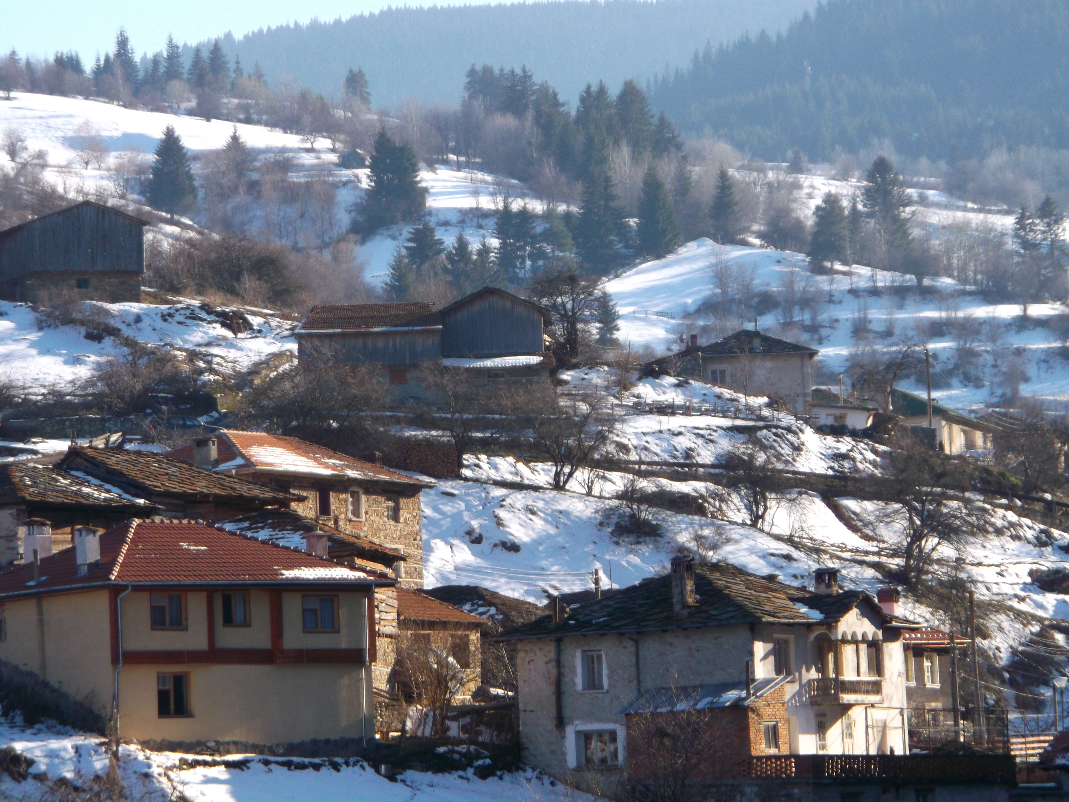 Zabardo old bulgarian rodopian houses